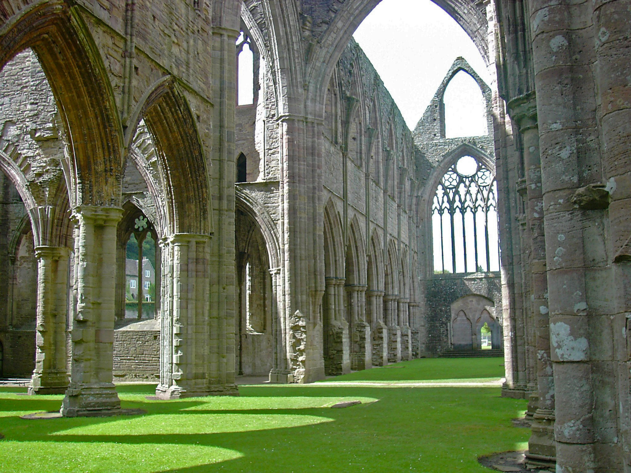 Taken by User:MartinBiely 5th August 2004.